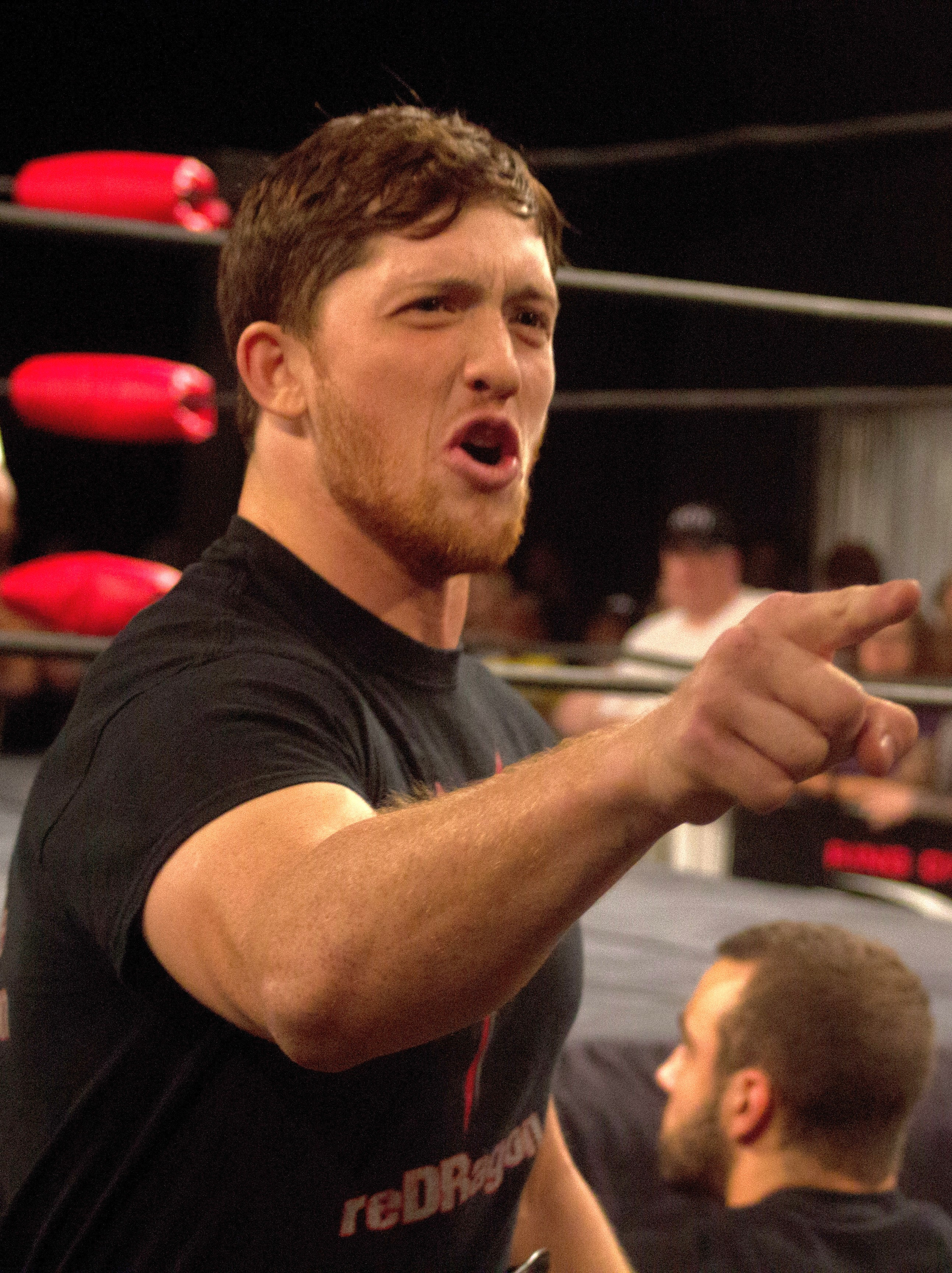 Kyle O'Reilly making his way to the ring in September 2013, at a Ring of Honor event. Cropped from original image.